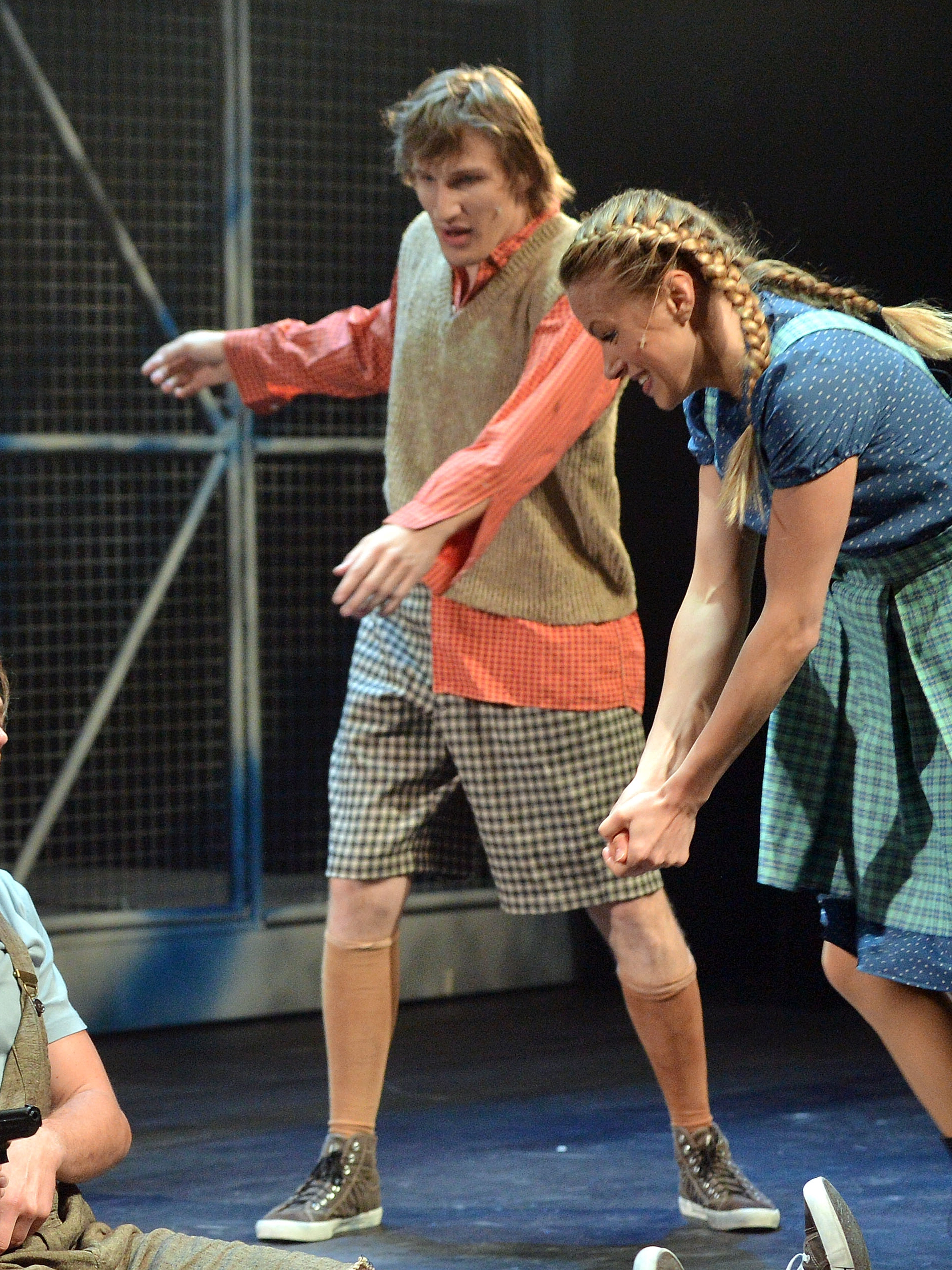 The musical Blood Brothers by Městské divadlo Brno (from the left: Jakub Zedníček, Johana Gazdíková)